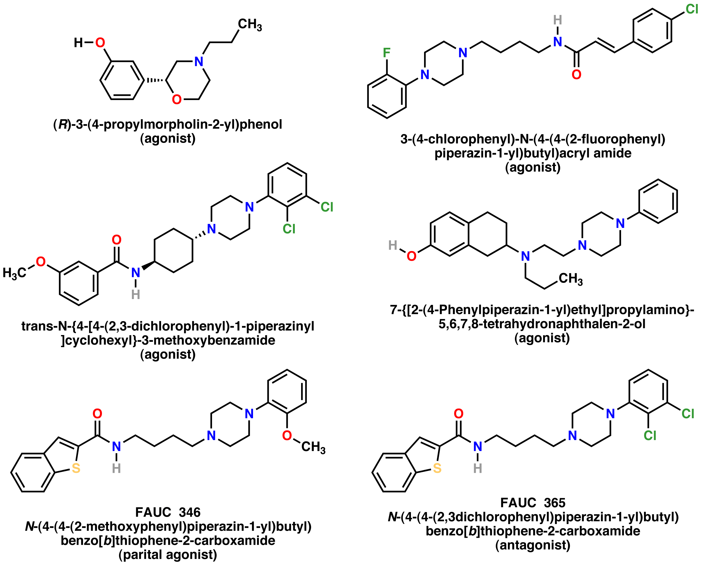 Created myself using ChemDraw.